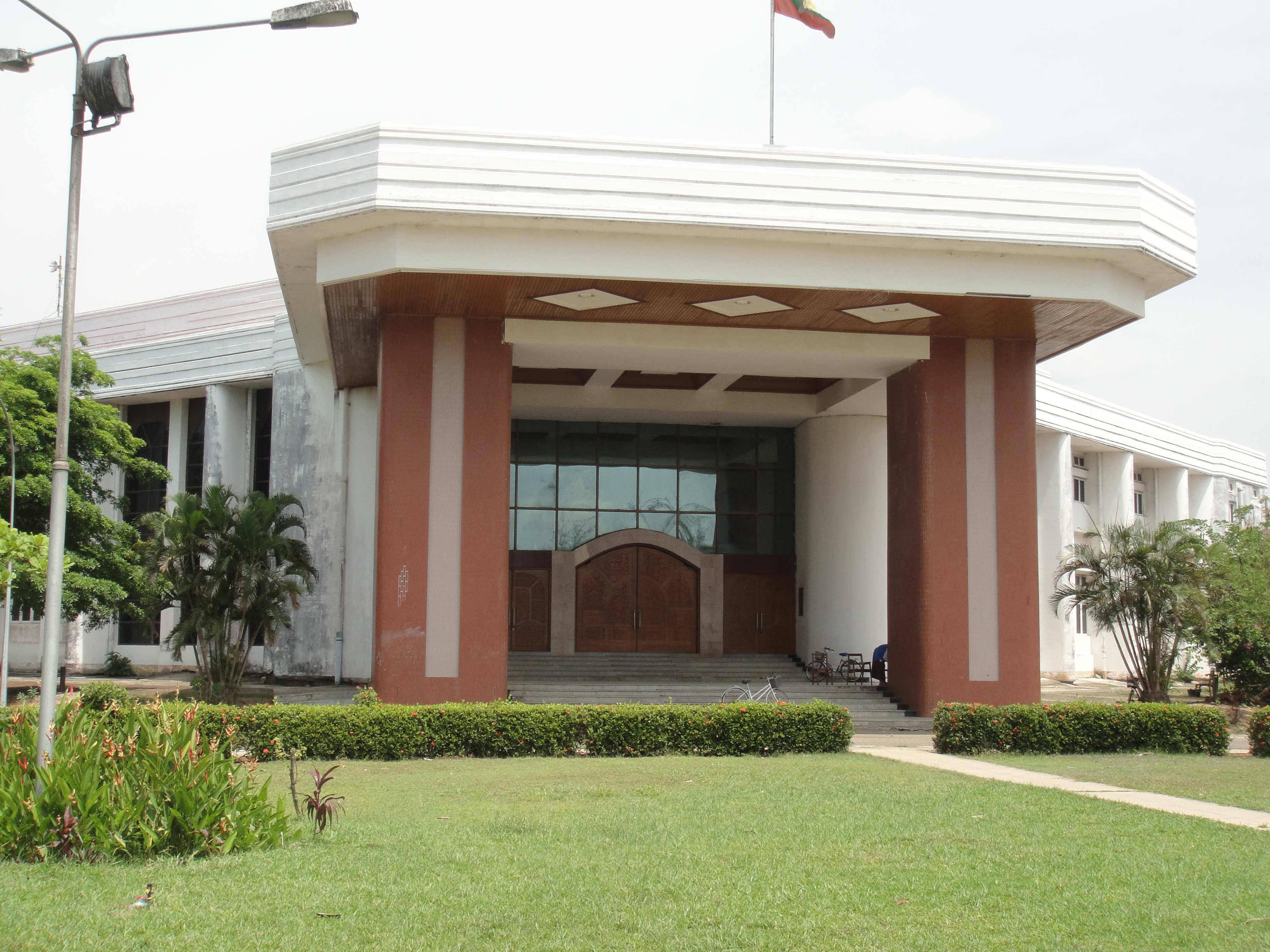 The main building to confer degrees upon graduation